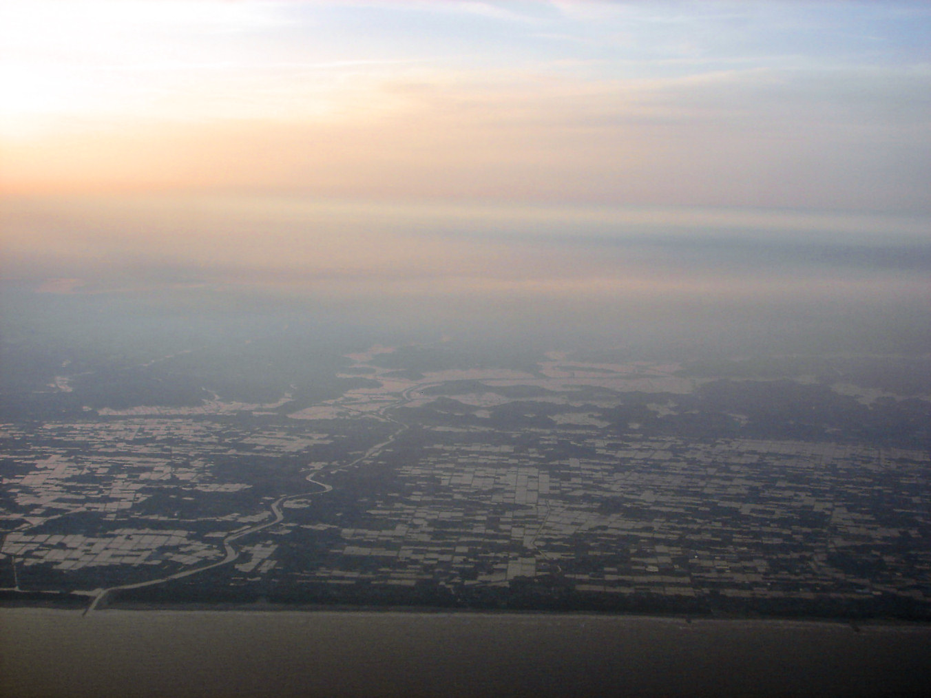 Sunset over Chiba, Japan. Yokoshibahikari and Sosa visible.